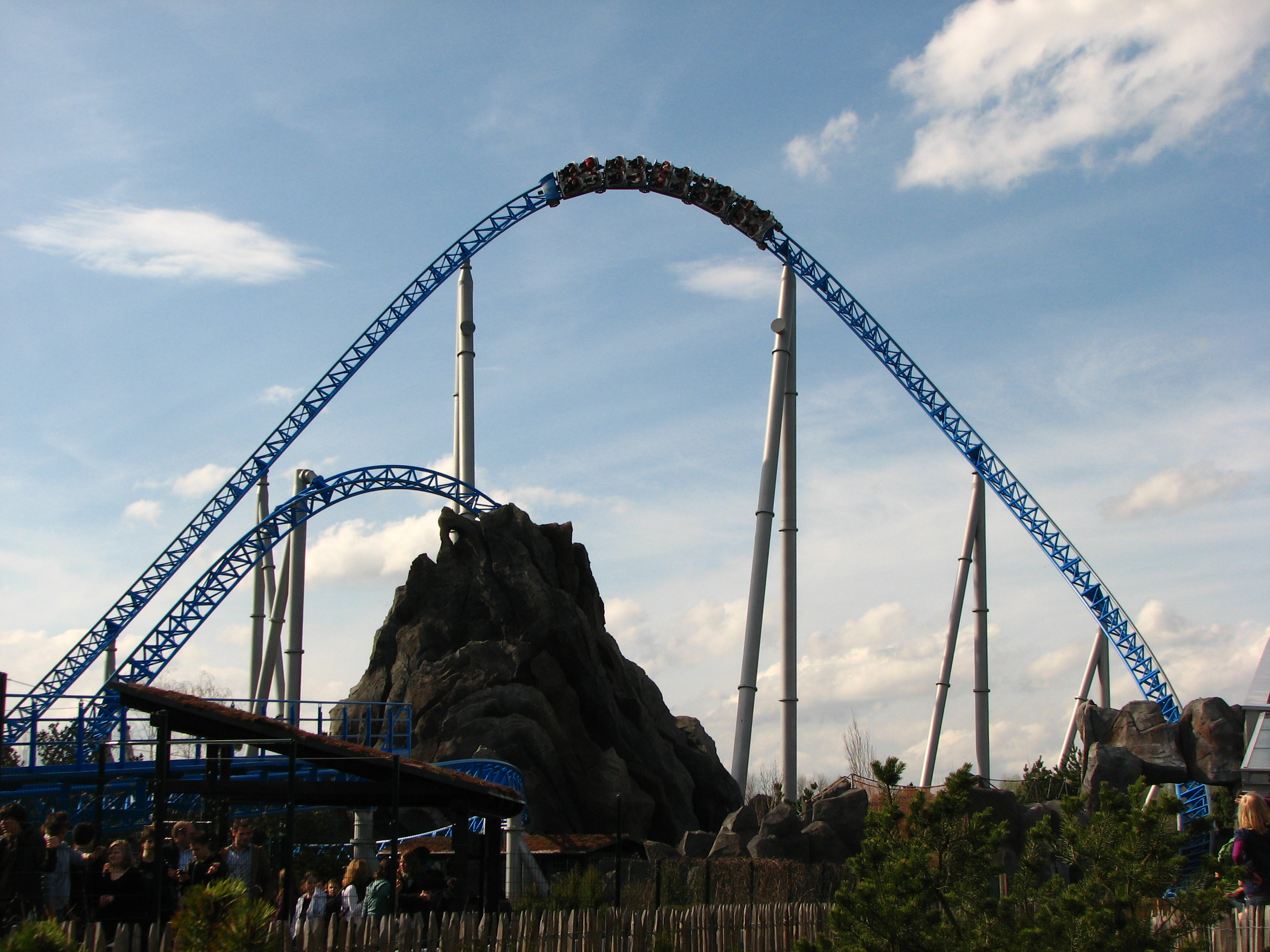 Blue Fire Megacoaster, Europa-Park, Rust, Baden-Württemberg, Germany.